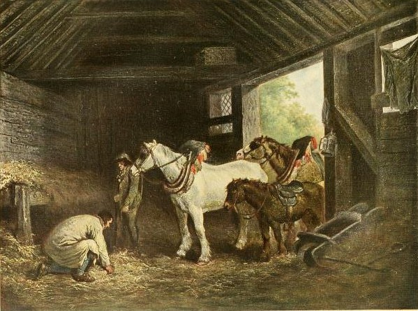 The inside of a stable (oil on canvas)